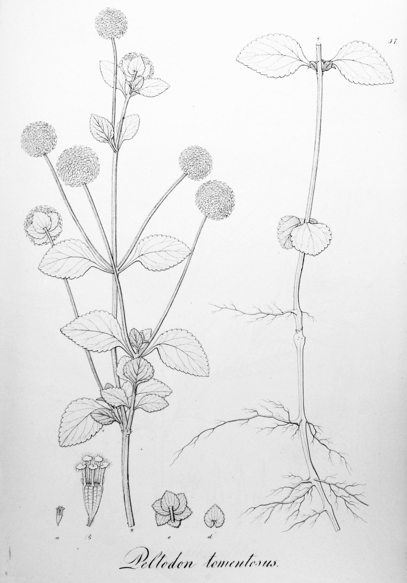 Plate from book